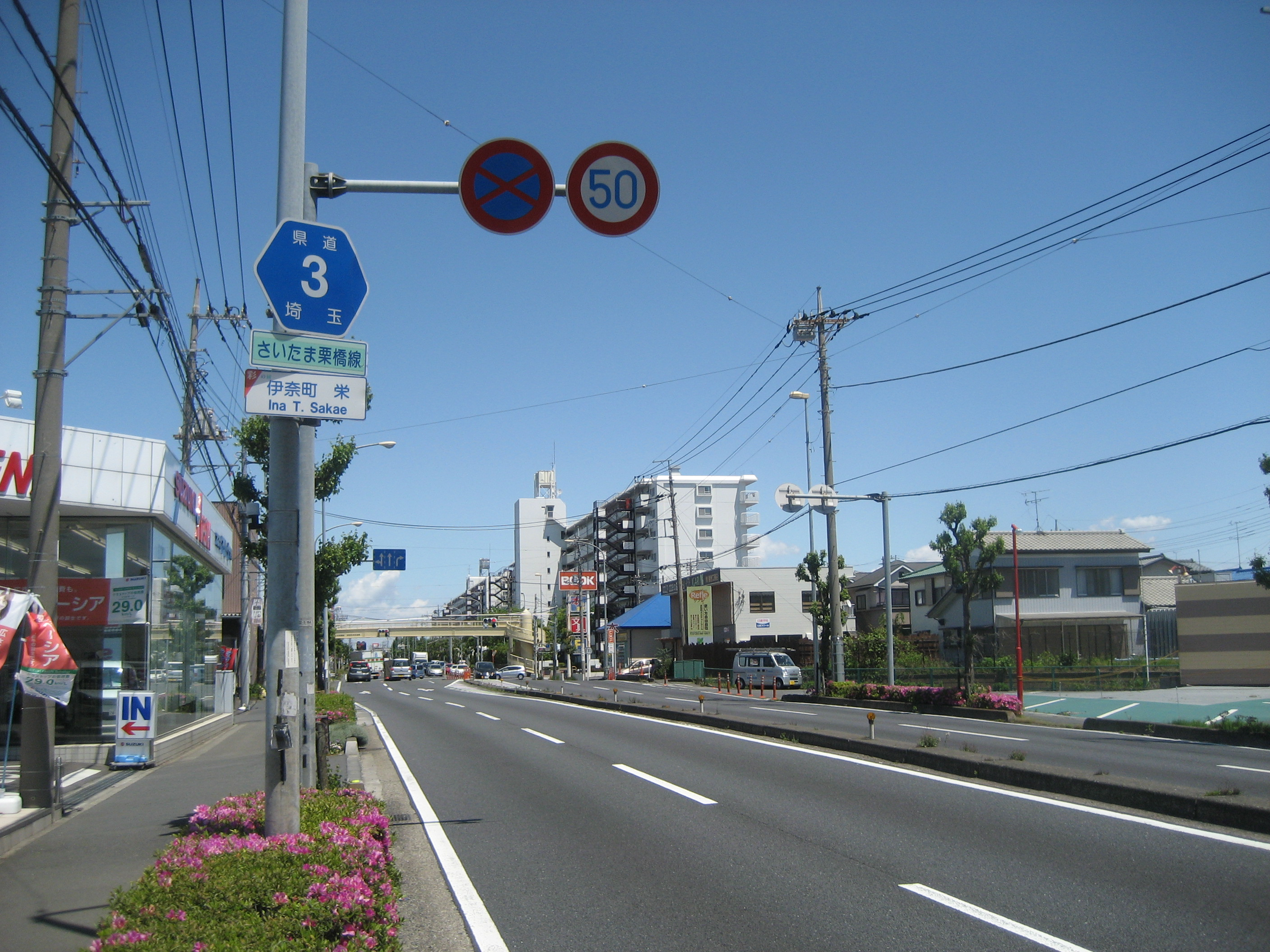 The Saitama Prefectural Road Route 3 in Sakae, Ina Town